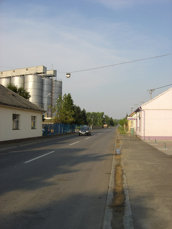 Betonska ulica (street), Beli Manastir, Croatia.